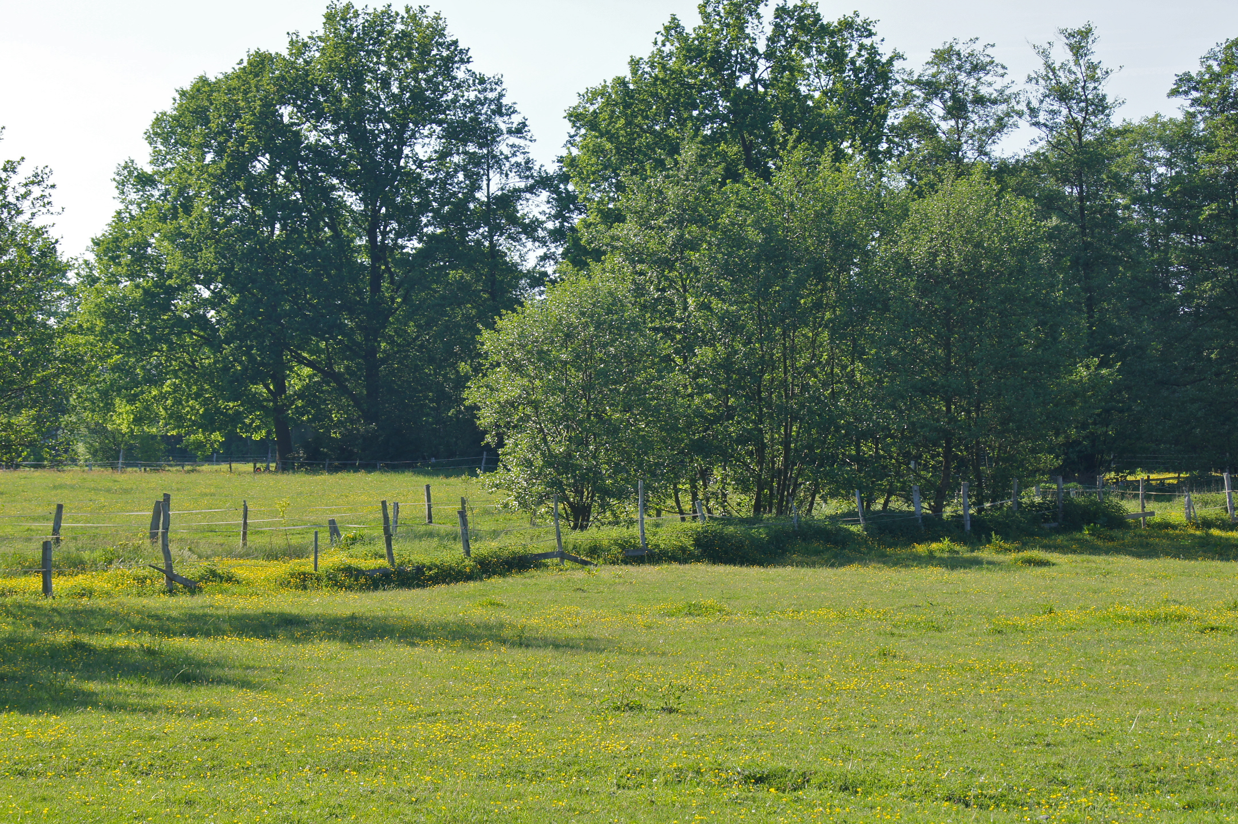 Hamburg (Duvenstedt), Germany: The River Tangstedter Graben